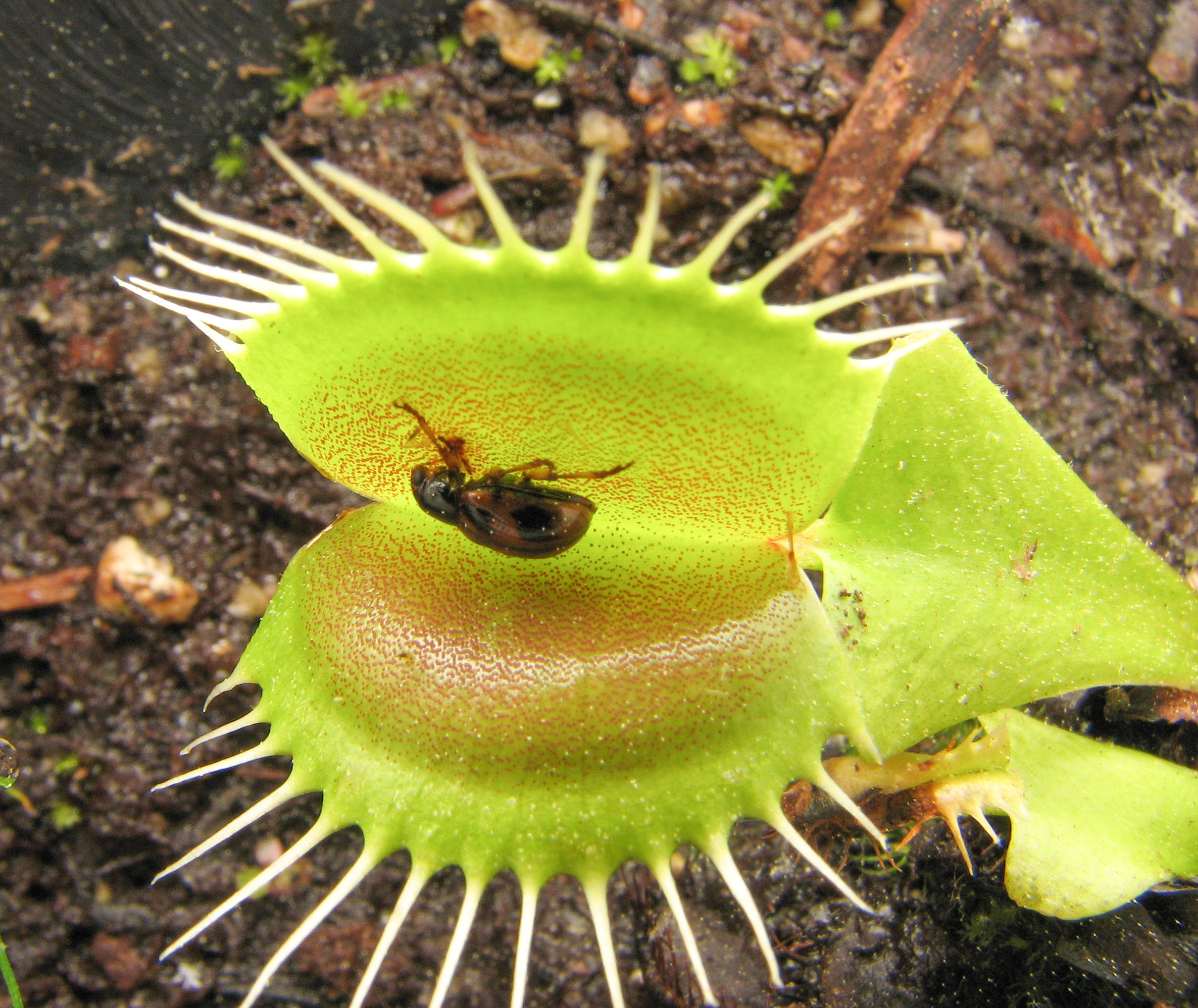 Chrysomelid beetle (Paria) trapped by Dionaea muscipula. Pennypack Restoration Trust, Montgomery County, Pennsylvania, USA.